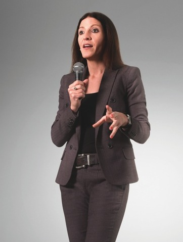 Krusi - Speaking Engagement